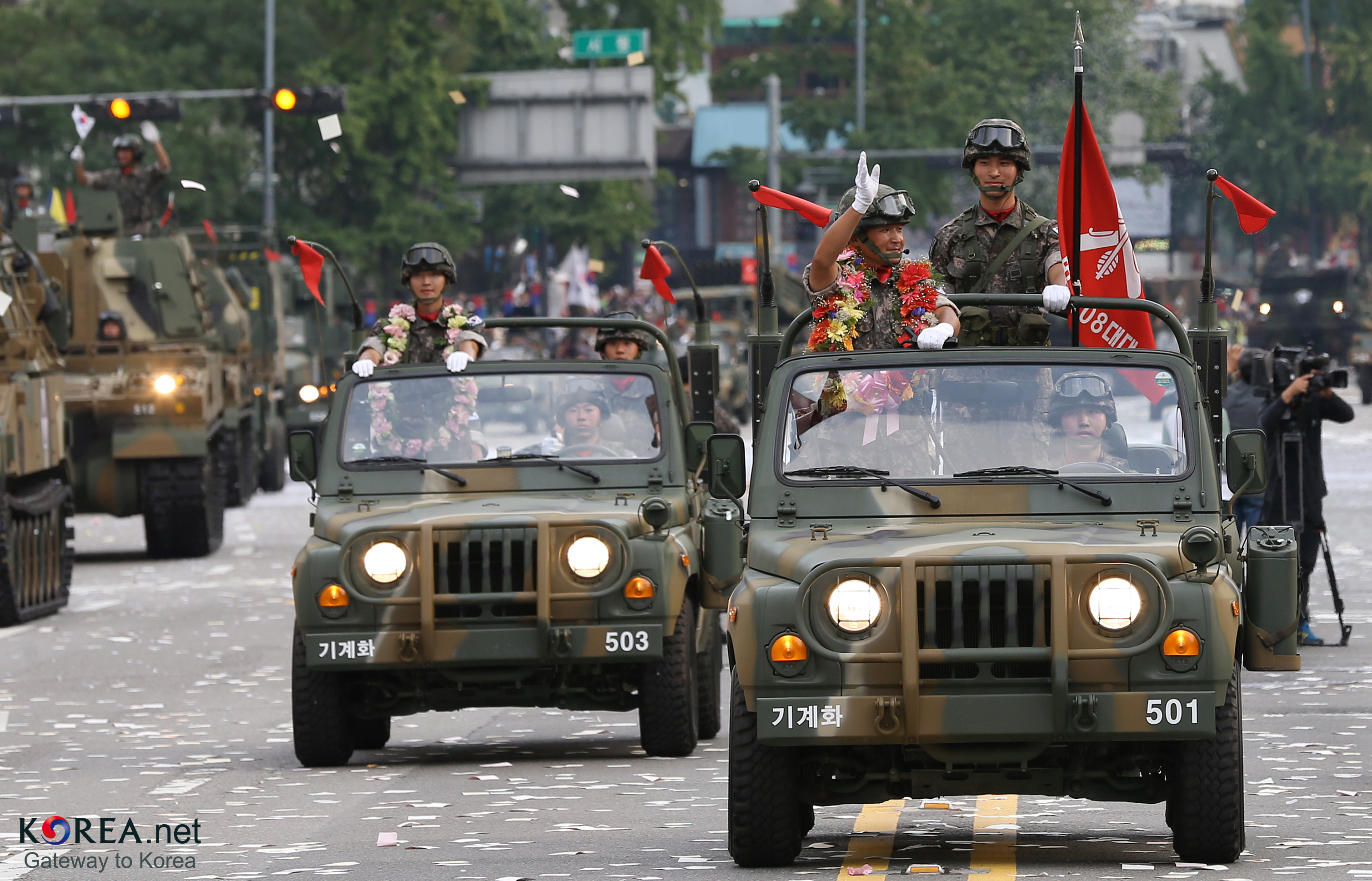 The 65th Anniversary of the Armed Forces Day